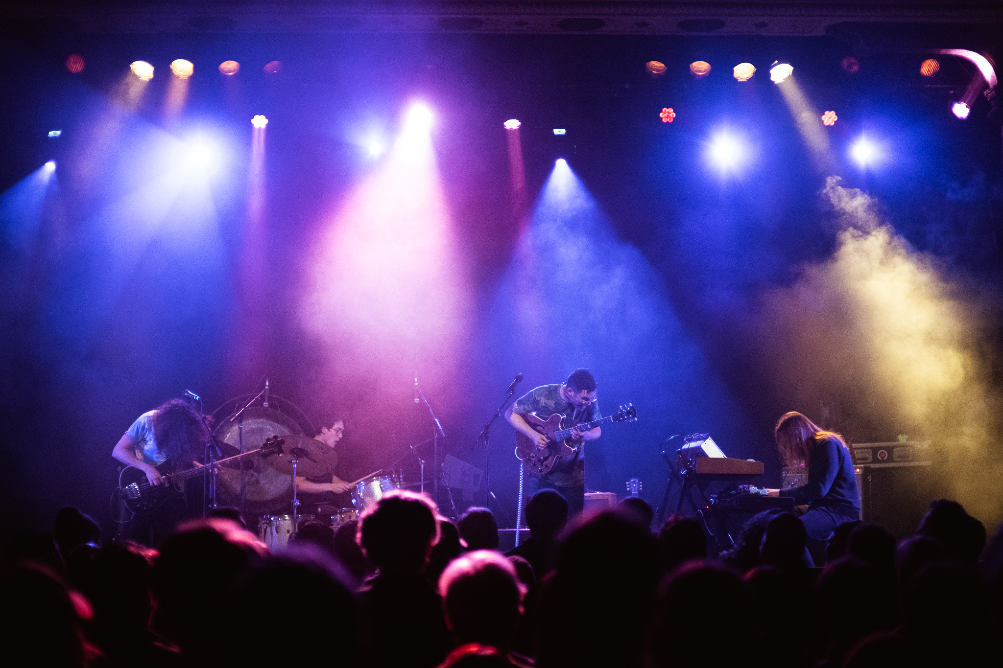 White Denim performing at Metro in Chicago, IL, November 2019